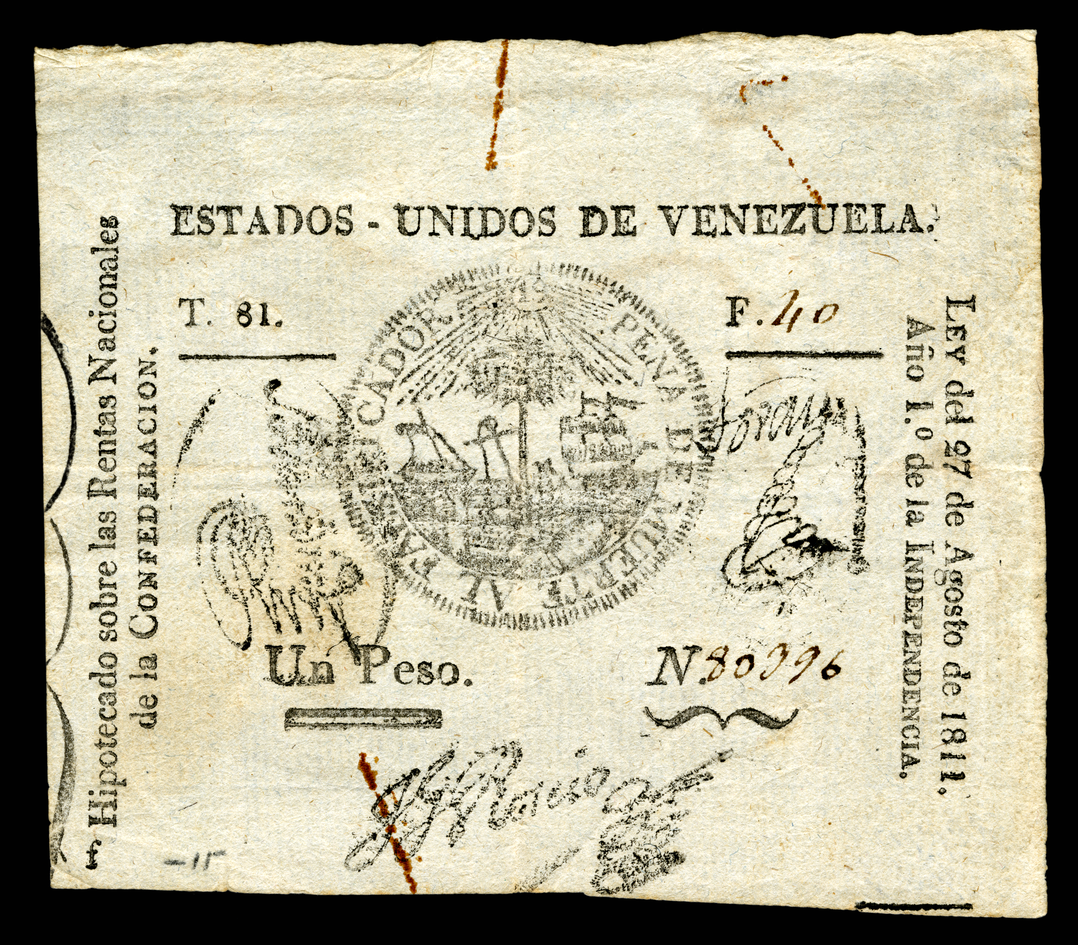 United States of Venezuela (Treasury Note), 1 peso, under law dated 27 August 1811. First issue of Venezuelan national paper currency.